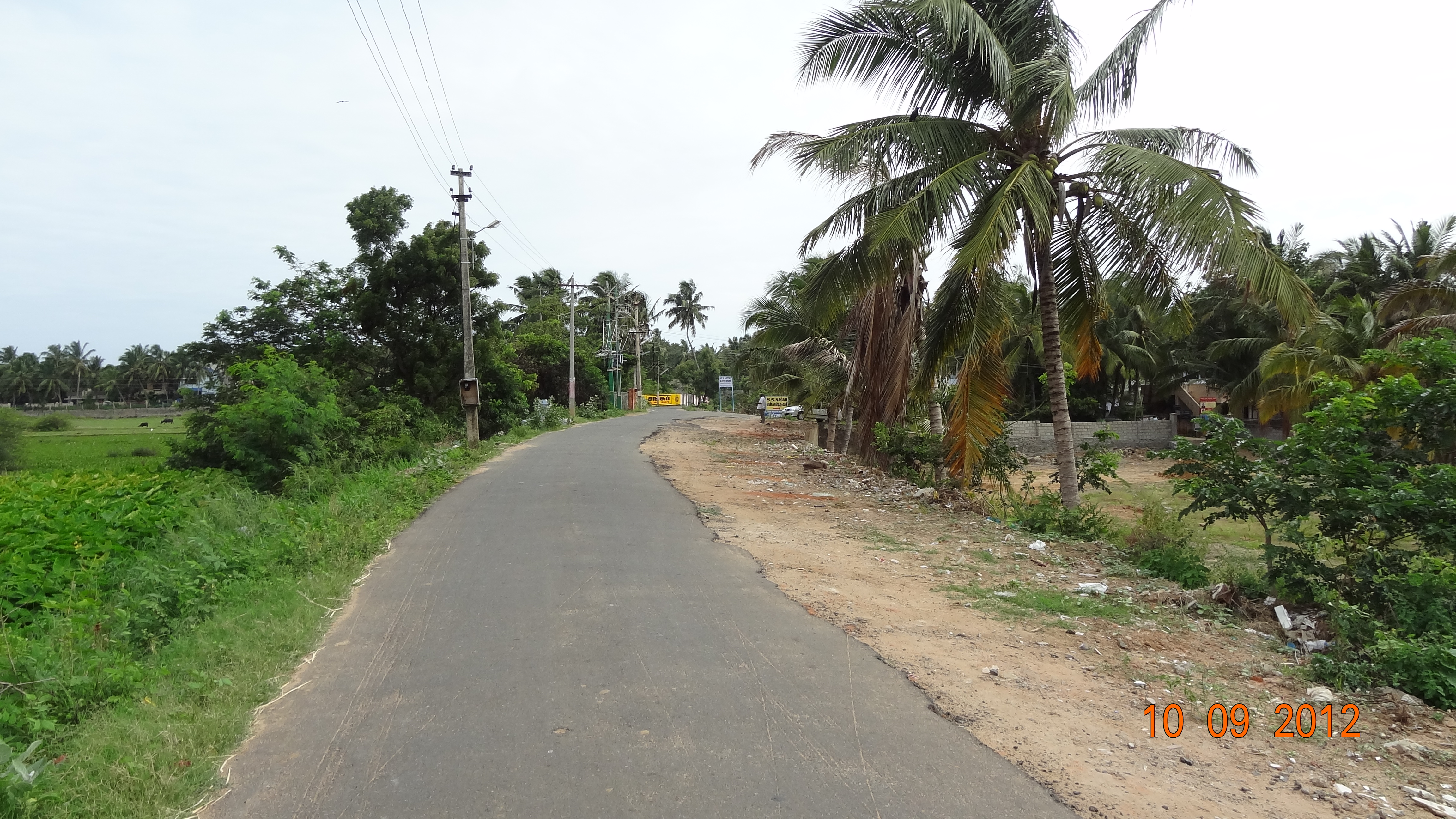 The road leading to Christopher Nagar from NH47 at Parvathipuram.